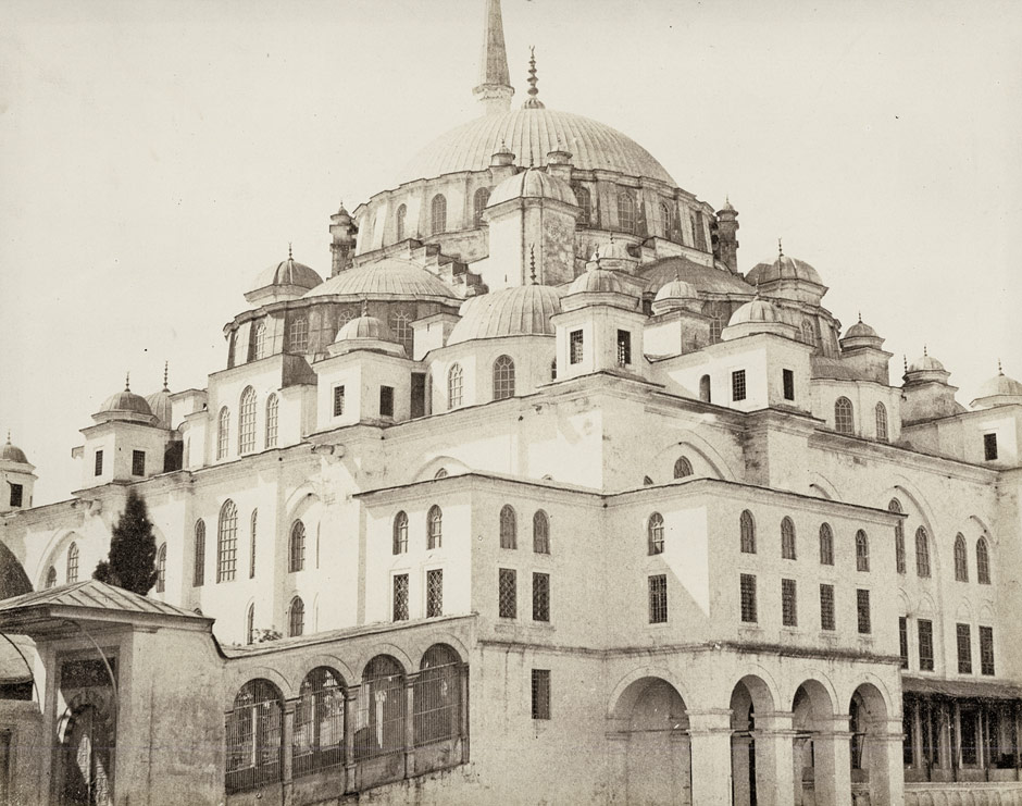 "Fatih Mosque". In Ottoman Constantinople−Istanbul, the capital of the the Ottoman Empire. By James Robertson, c. 1852–1854. Salt print from paper negative. 24,5 x 31 cm